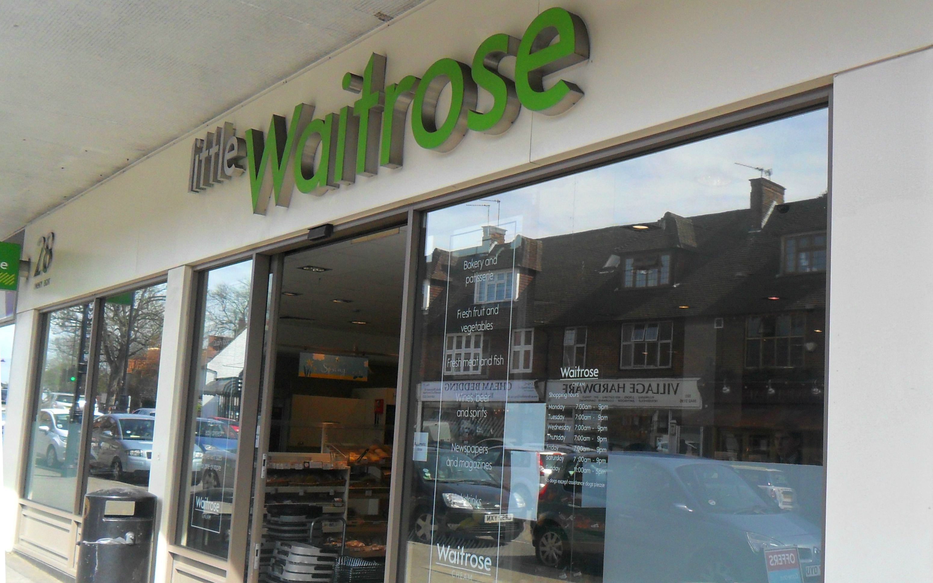 Little Waitrose in Cheam Village in the London Borough of Sutton